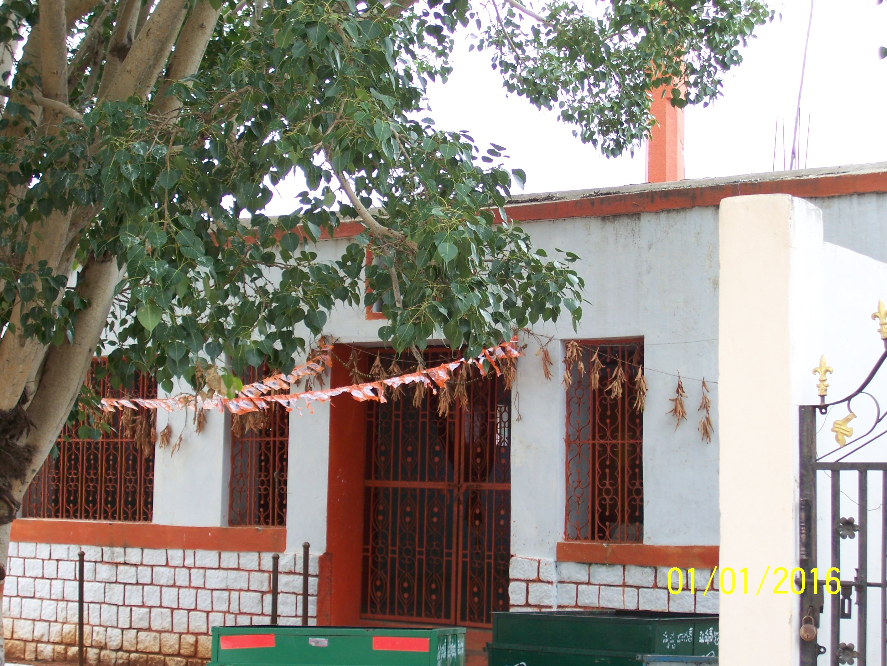 temles